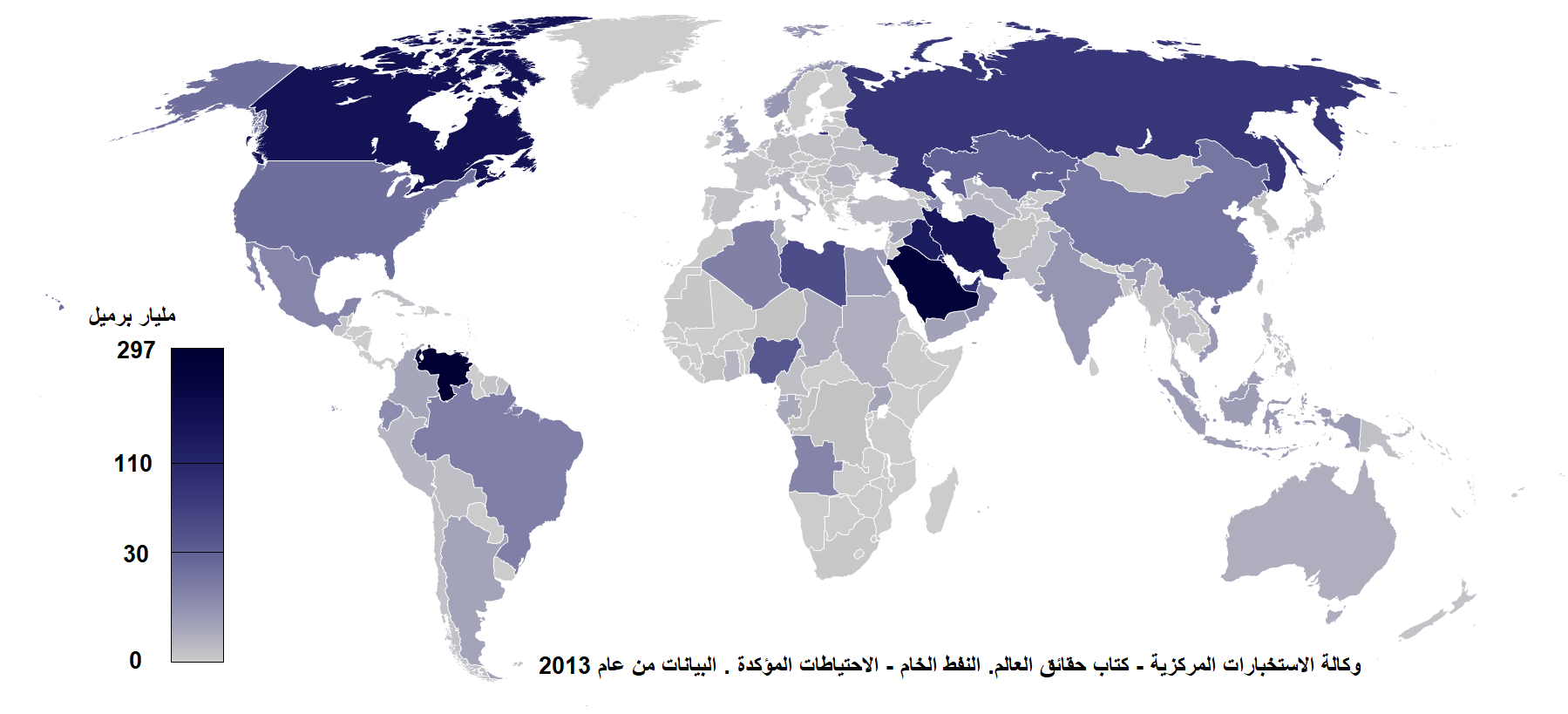 Oil - proved reserves.